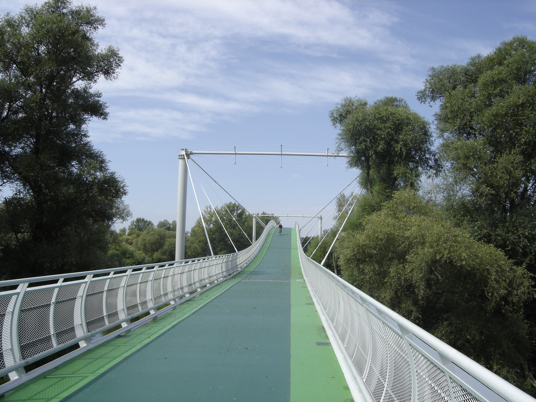 Bridge between Devinska Nova Ves (Bratislava, SK) and Schlosshof (A)